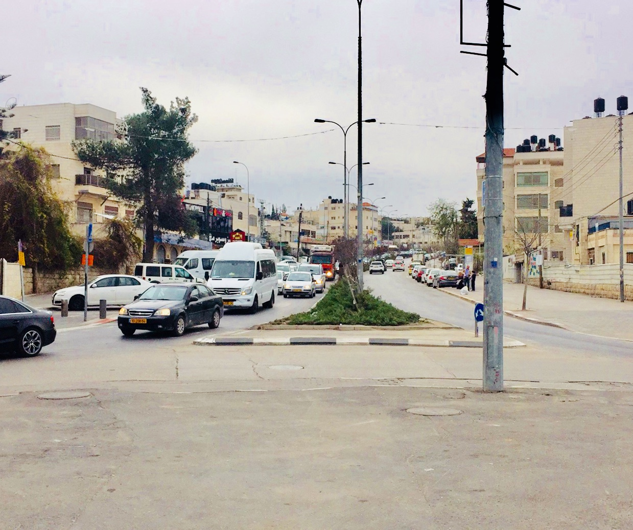 One of the streets of Beit Hanina.